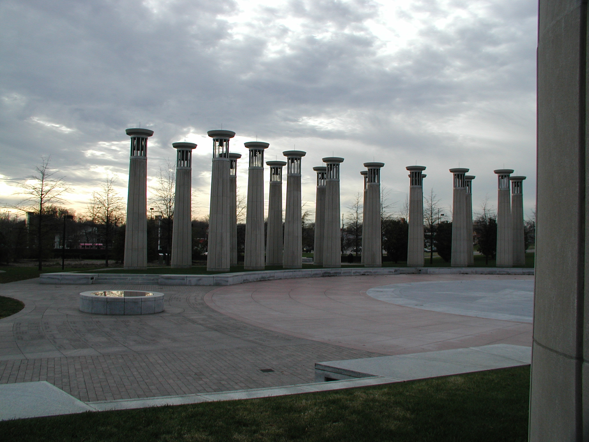 Columns at Bicentennial Mall State Park, Nashville, Tennessee, U.S.A.